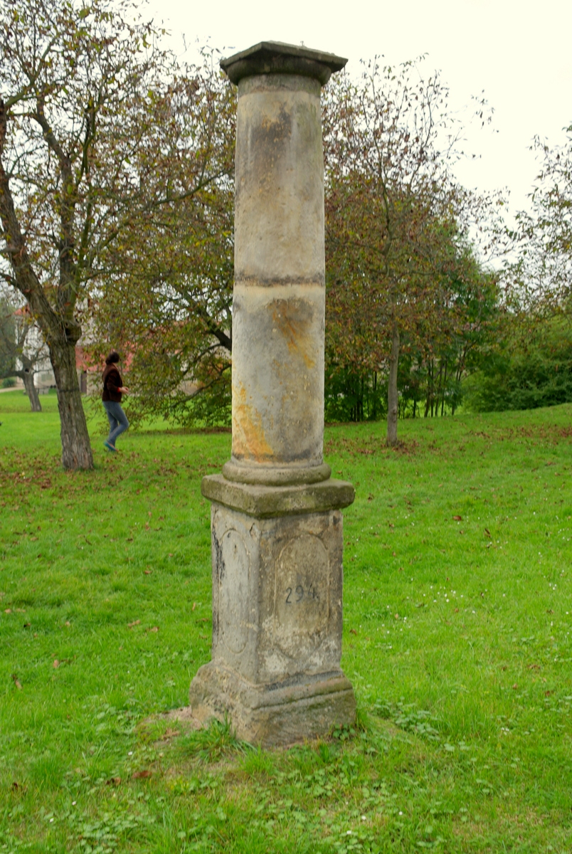 Milestone 294, Charvatce (Martiněves).